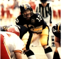 Pittsburgh Steelers quarterback Terry Bradshaw preparing for an offensive play against the Kansas City Chiefs during a December 5, 1982 home game at Three Rivers Stadium.